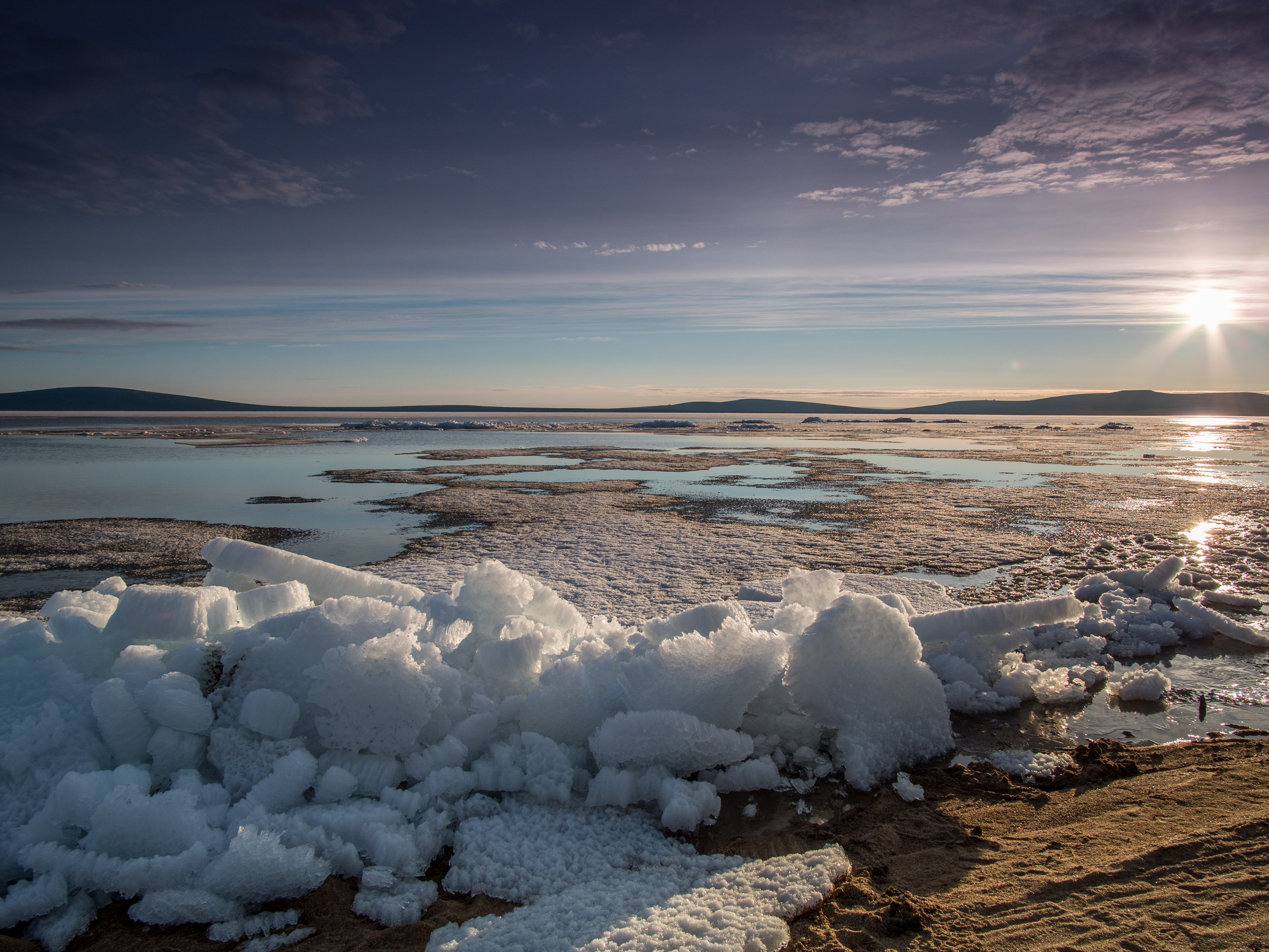 The midnight sun during polar day near the lake Ozhogino, the Sakha Republic, Russia This image is related to the protected area of Russia number 1410011